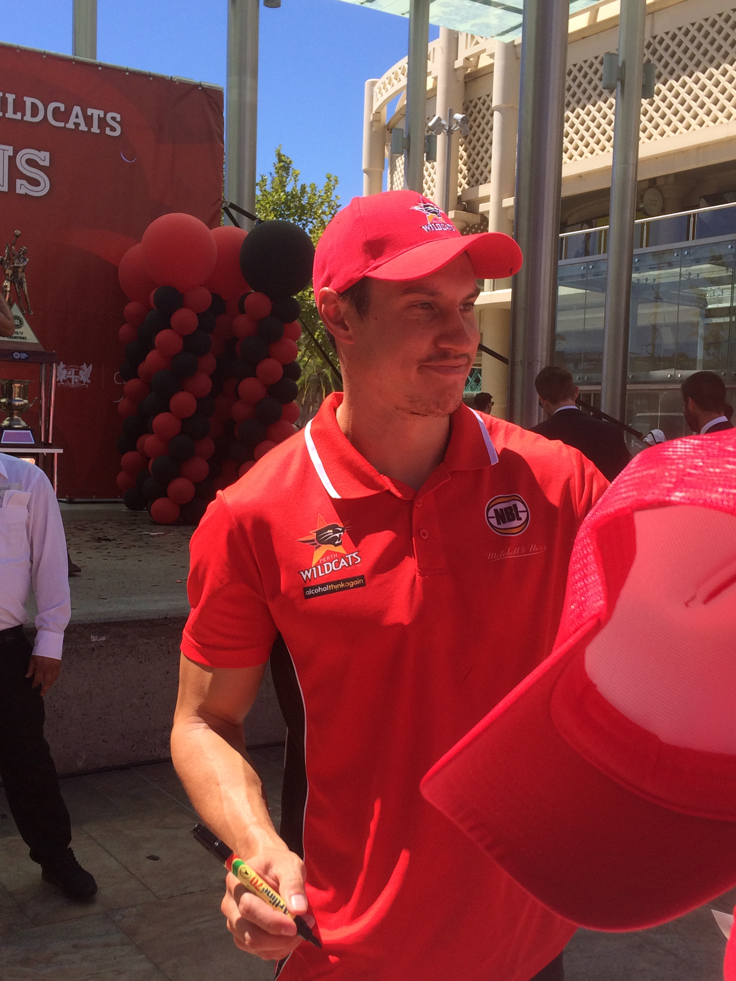 Jarrod Kenny at the Perth Wildcats' 2017 championship celebration